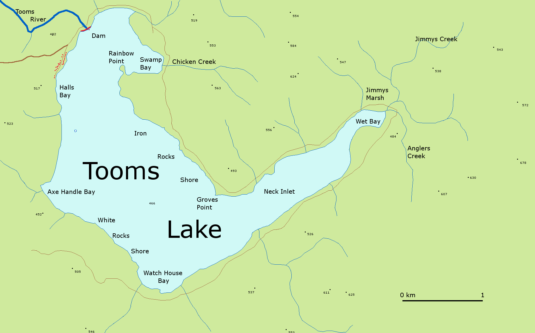 Map of Tooms Lake Tasmania showing village, creeks and road